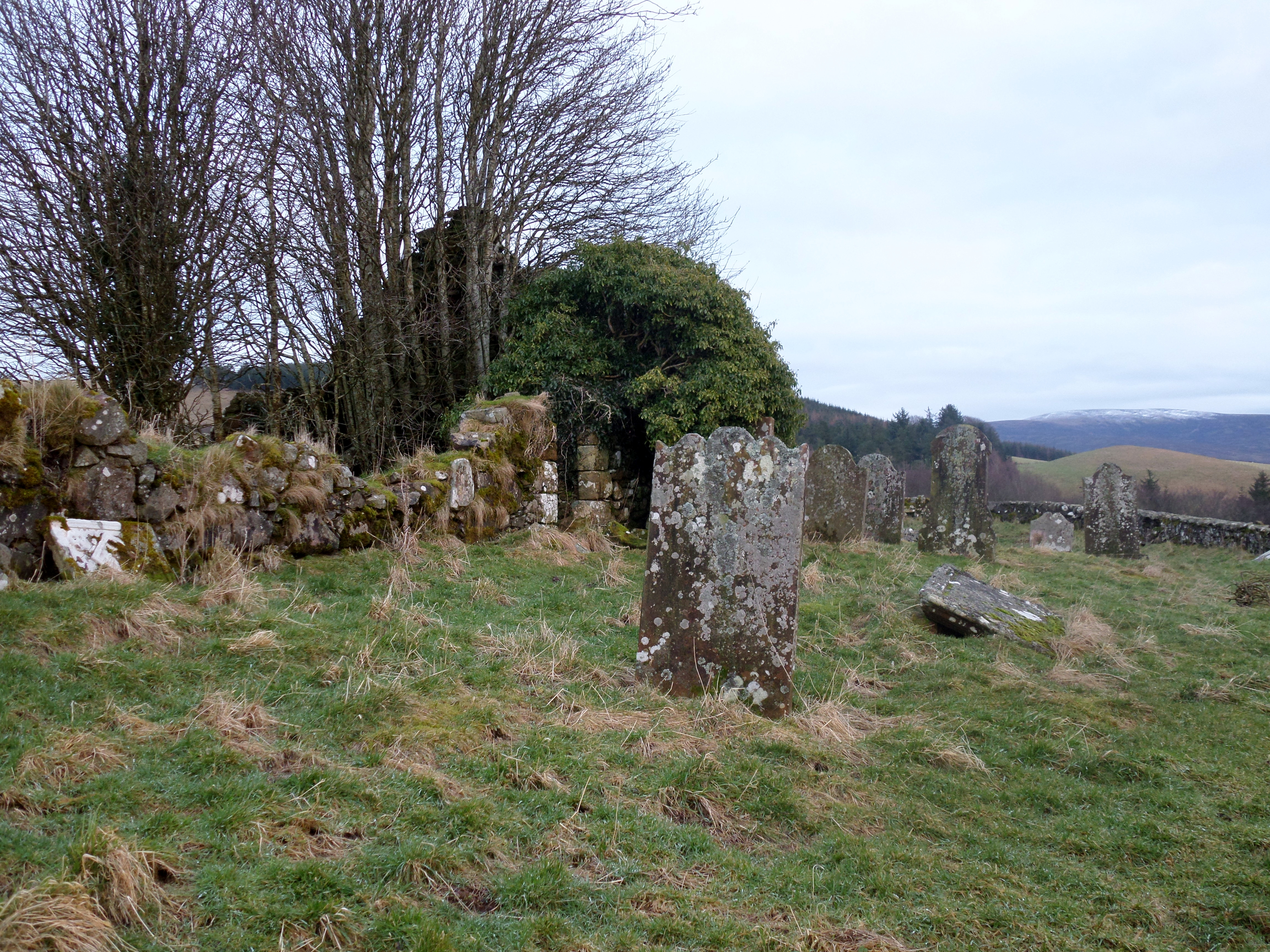 Kirkbride, Enterkinfoot, Nithsdale - old entrance looking east